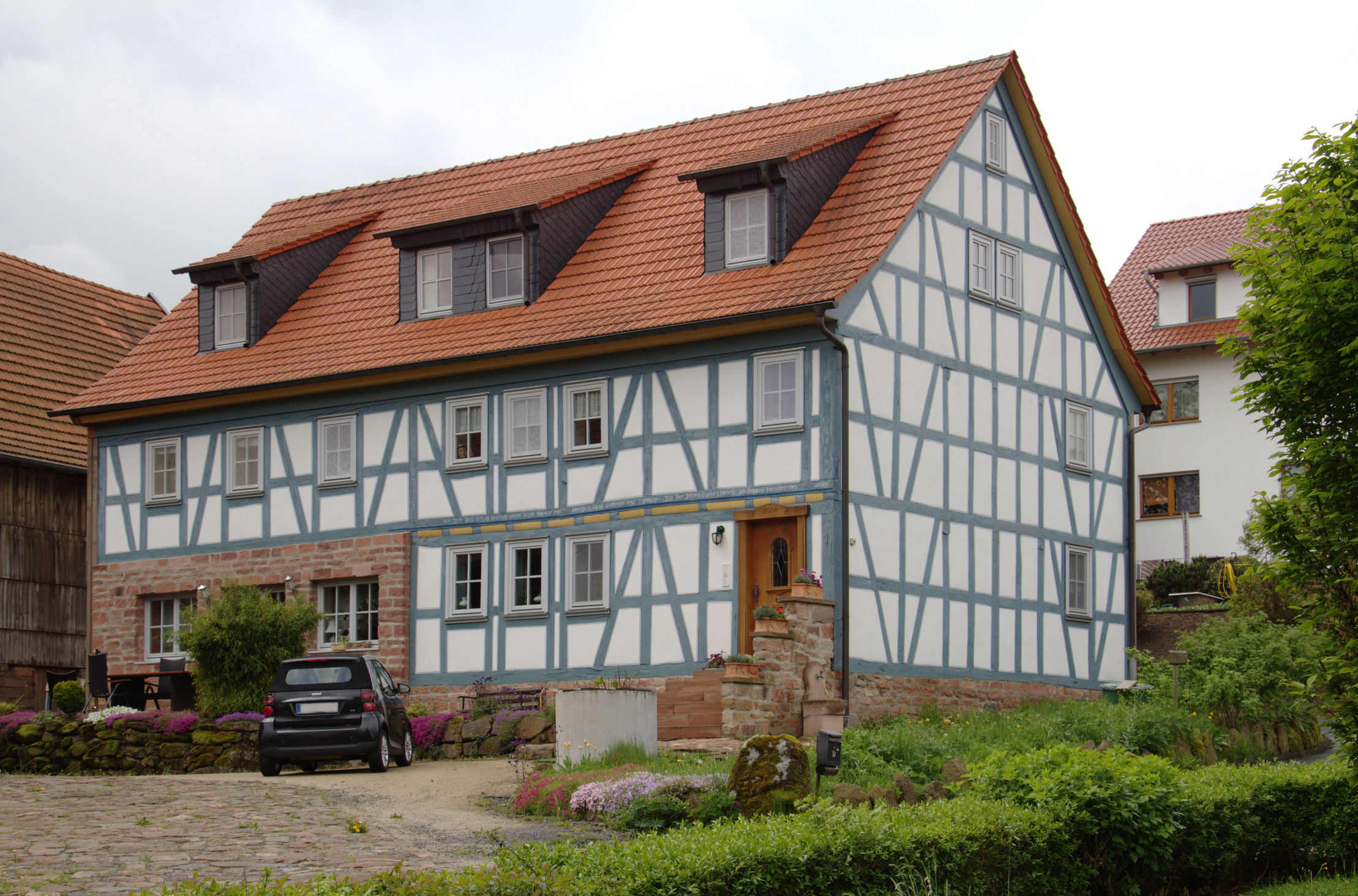 Half-timbered building in Poppenrod Weidenweg 1, Hosenfeld, Hessen, Germany